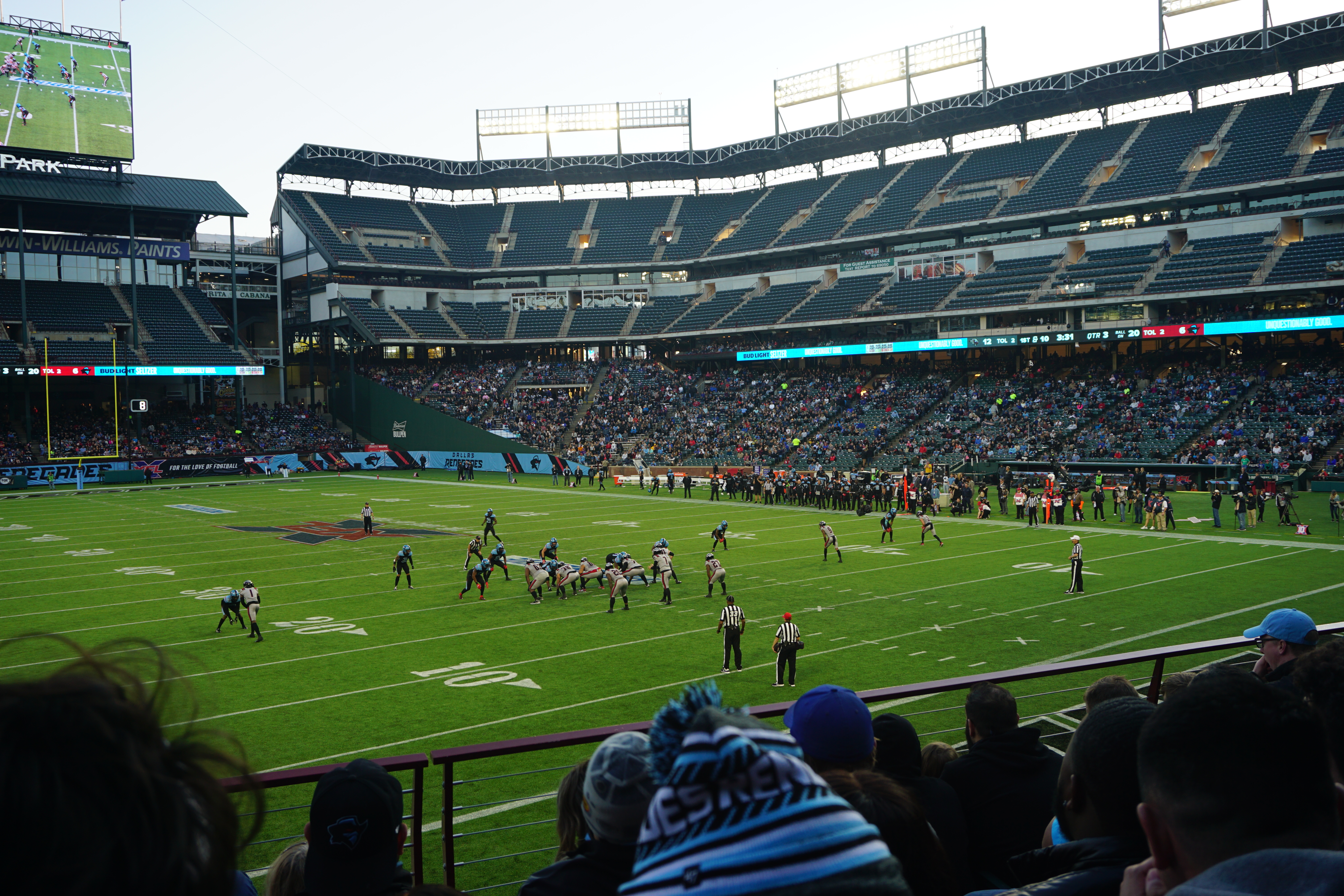 New York on offense during the New York Guardians vs. Dallas Renegades game at Globe Life Park in Arlington, Texas (United States). New York won 30–12.